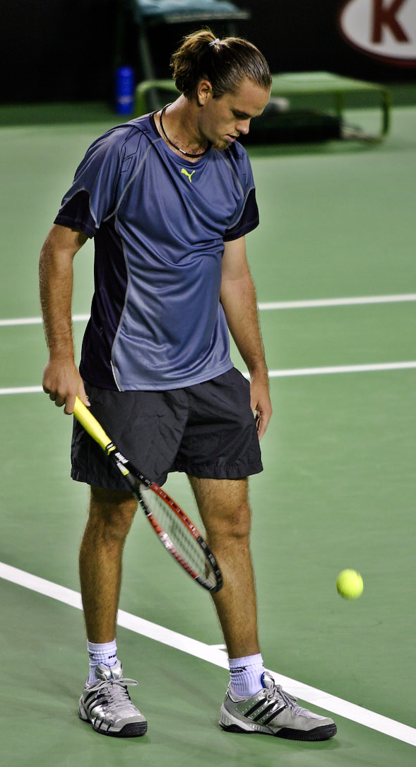 Xavier Malisse playing Tommy Haas at the 2005 Australian Open.